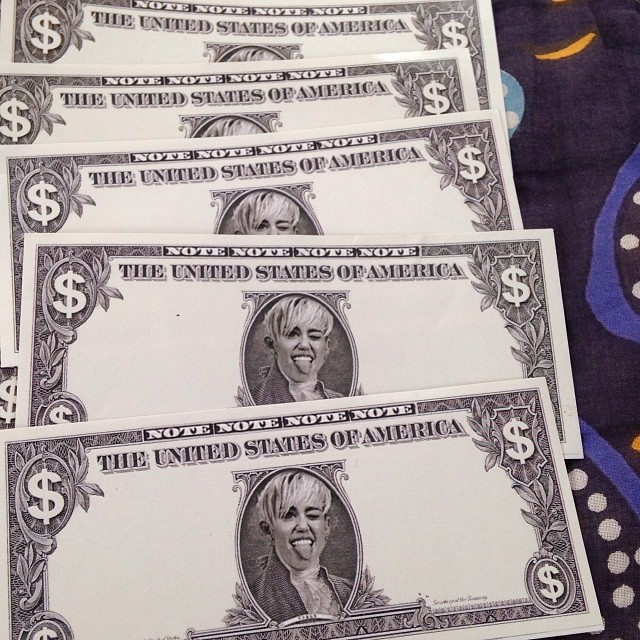 This is money on Bangerz Tour